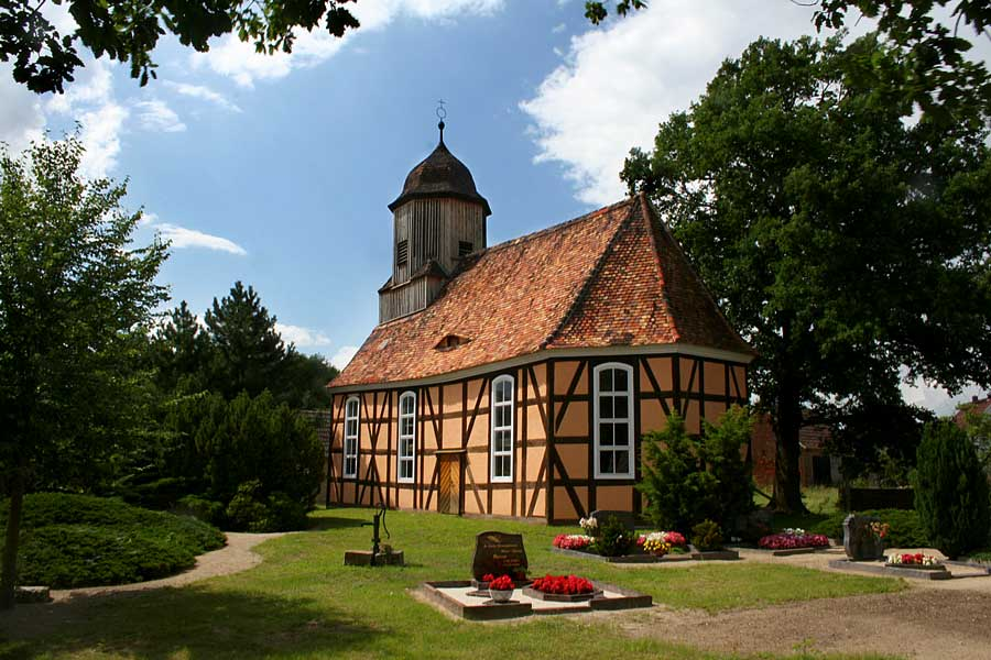 Church in village Kremitz, Germany